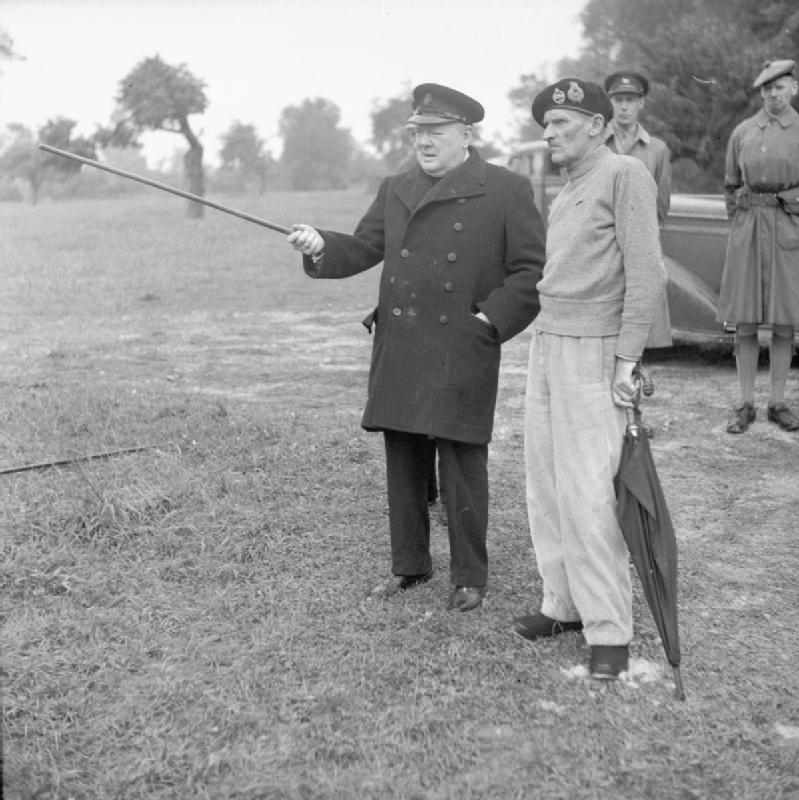 The British Army in the Normandy Campaign 1944 Winston Churchill with General Montgomery, 21 July 1944.